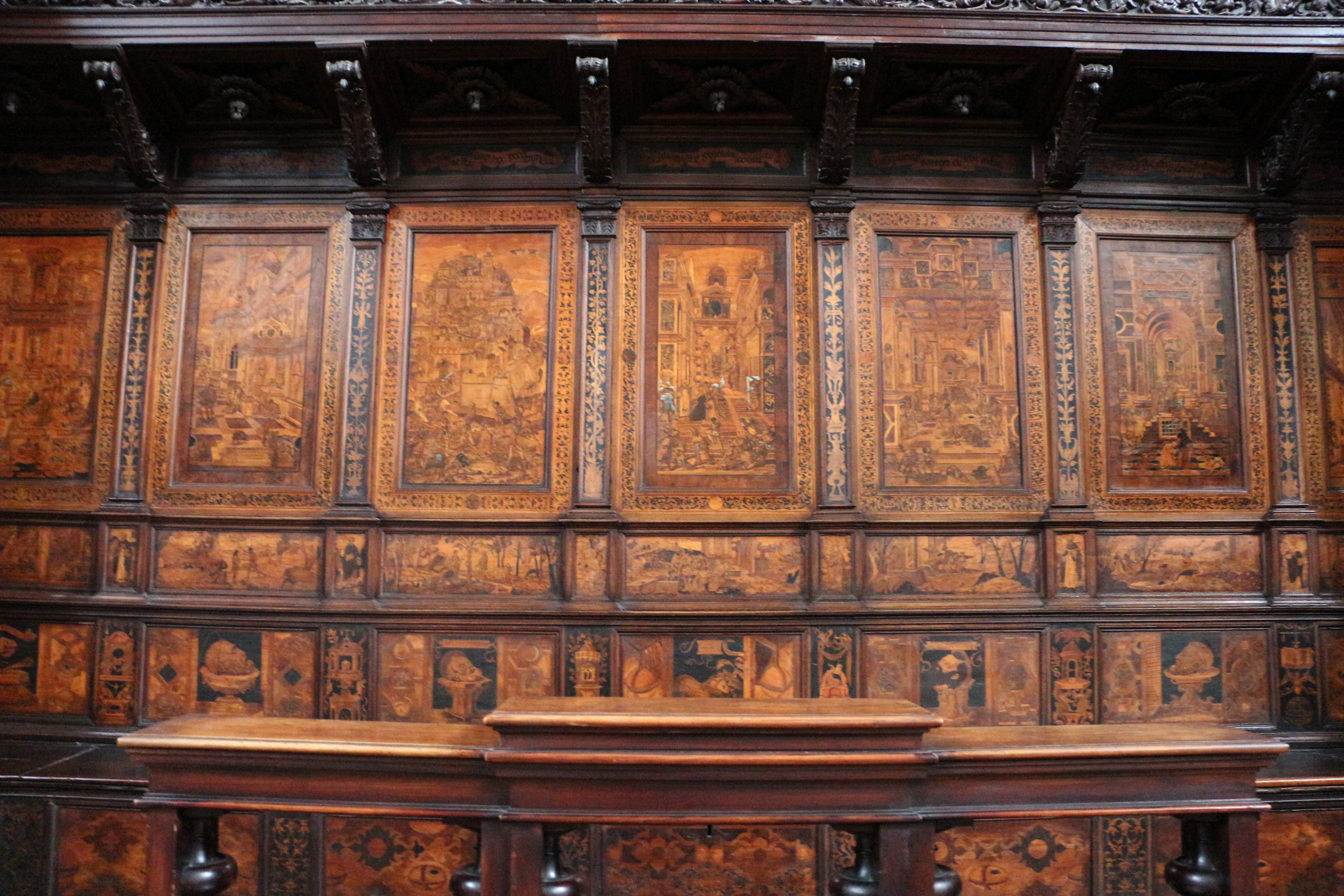 San Domenico (Bologna) - Intarsia by Fra' Damiano da Bergamo and workshop